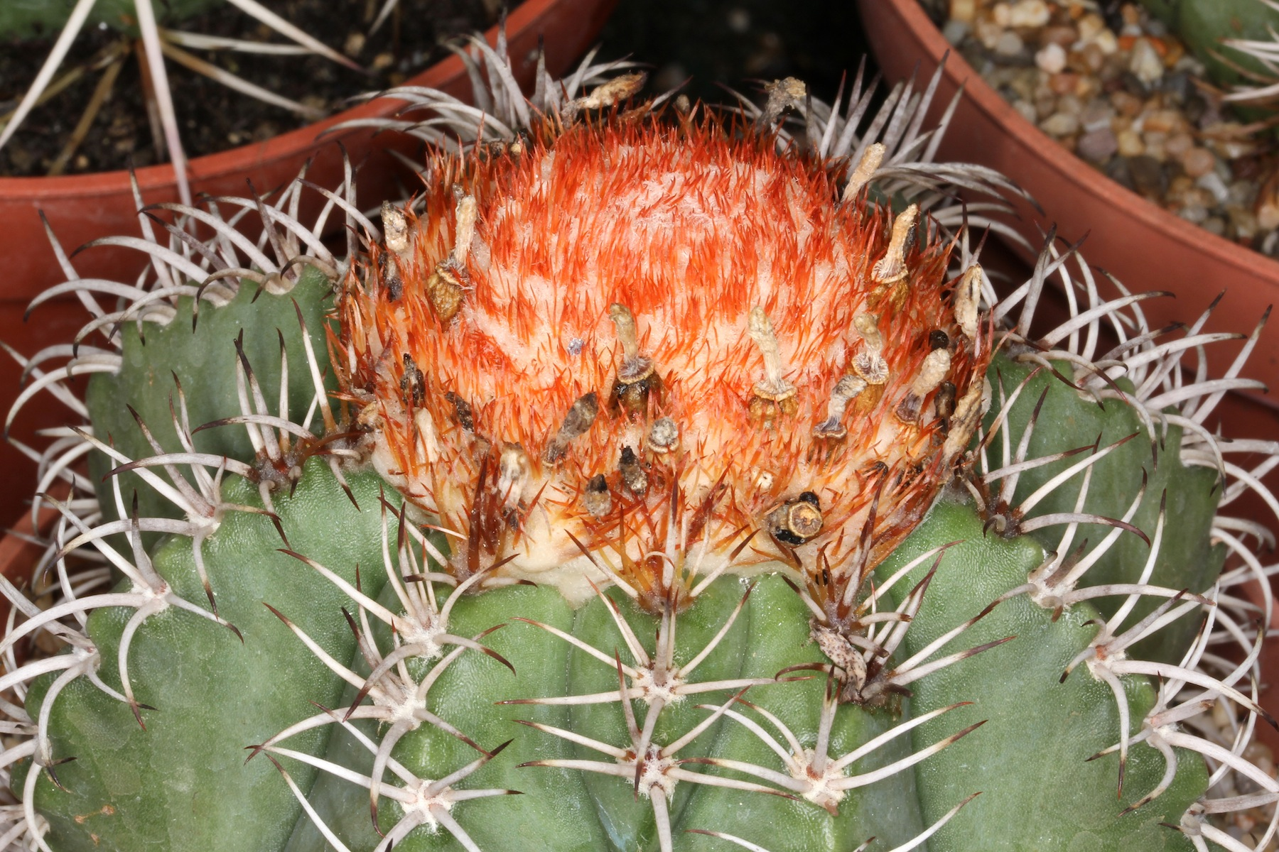 Melocactus bahiensis ssp. bahiensis